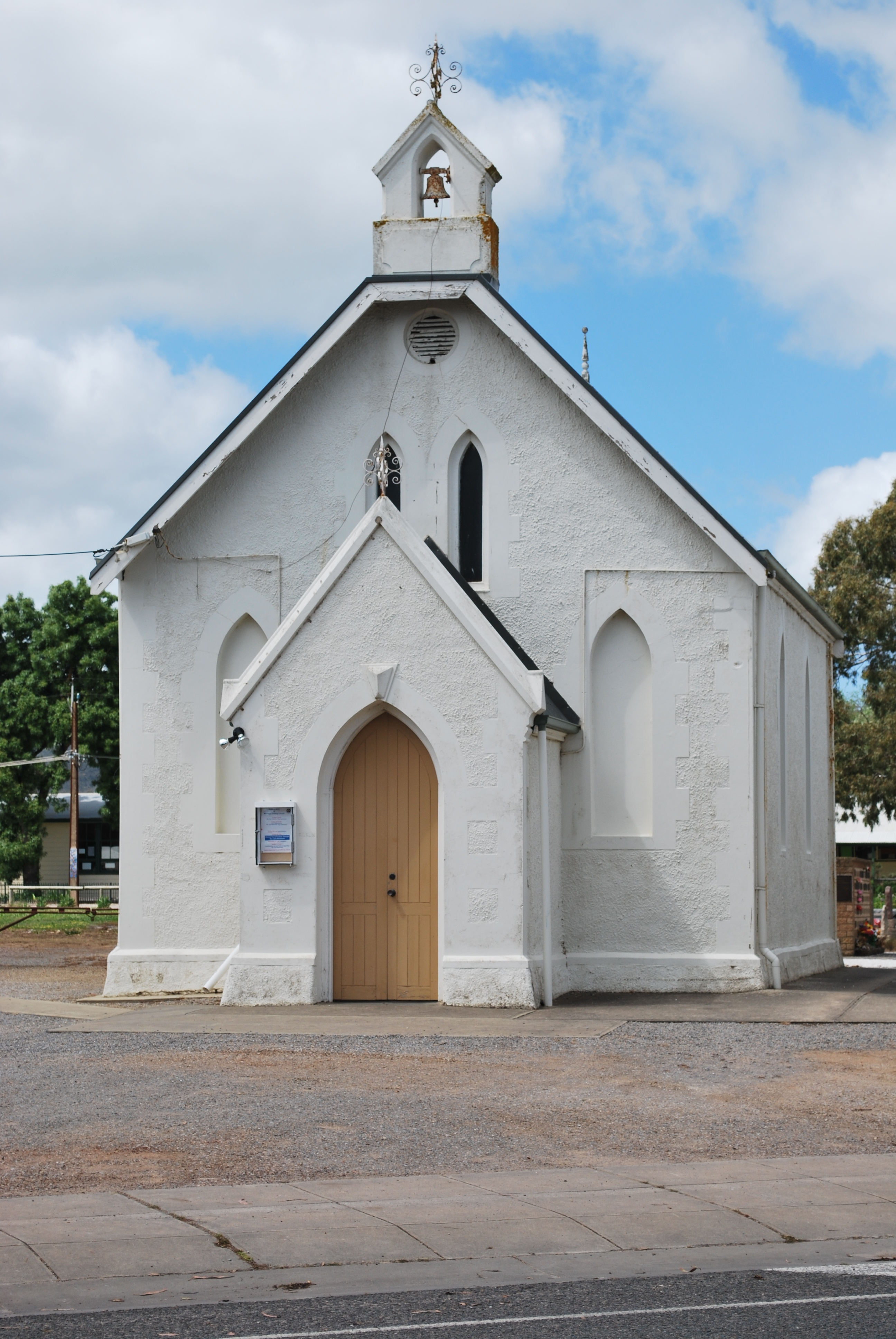 Construction date unknown, taken on the Fleurieu Peninsula South Australia (HISTORY) I BELIEVE,THIS CHURCH WAS BUILT,IN 1856' BY CON POLDEN'WHOM WON THE COUNCIL CONTRACT TO BUILD IT.YOU'LL FIND HIM OUT THE BACK!(source) HIS GREAT,GREAT,GREAT,GRANDSON.